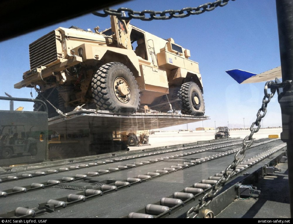 An MRAP vehicle being loaded onto National Airlines Flight 102 at camp Bastion. The aircraft then flew to Bagram Airfield for refueling. It then departed Bagram for Dubai, however, just seconds after takeoff the aircraft stalled and crashed killing everyone on board. The cause of the accident was a load shift. It might have been this MRAP vehicle that shifted.